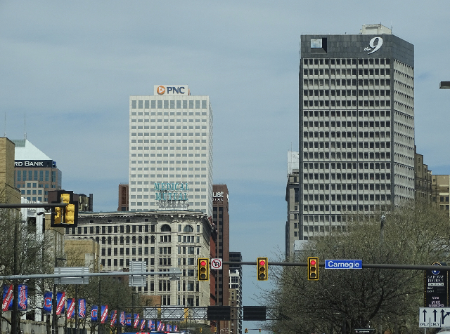 The 9 and PNC Center on East 9th Street in downtown Cleveland, Ohio, looking north.